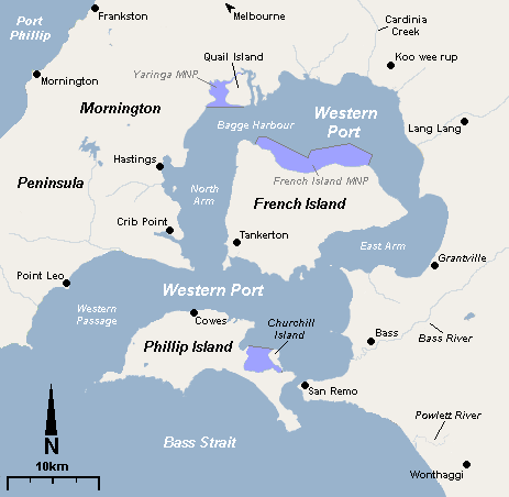 a simple map of western port